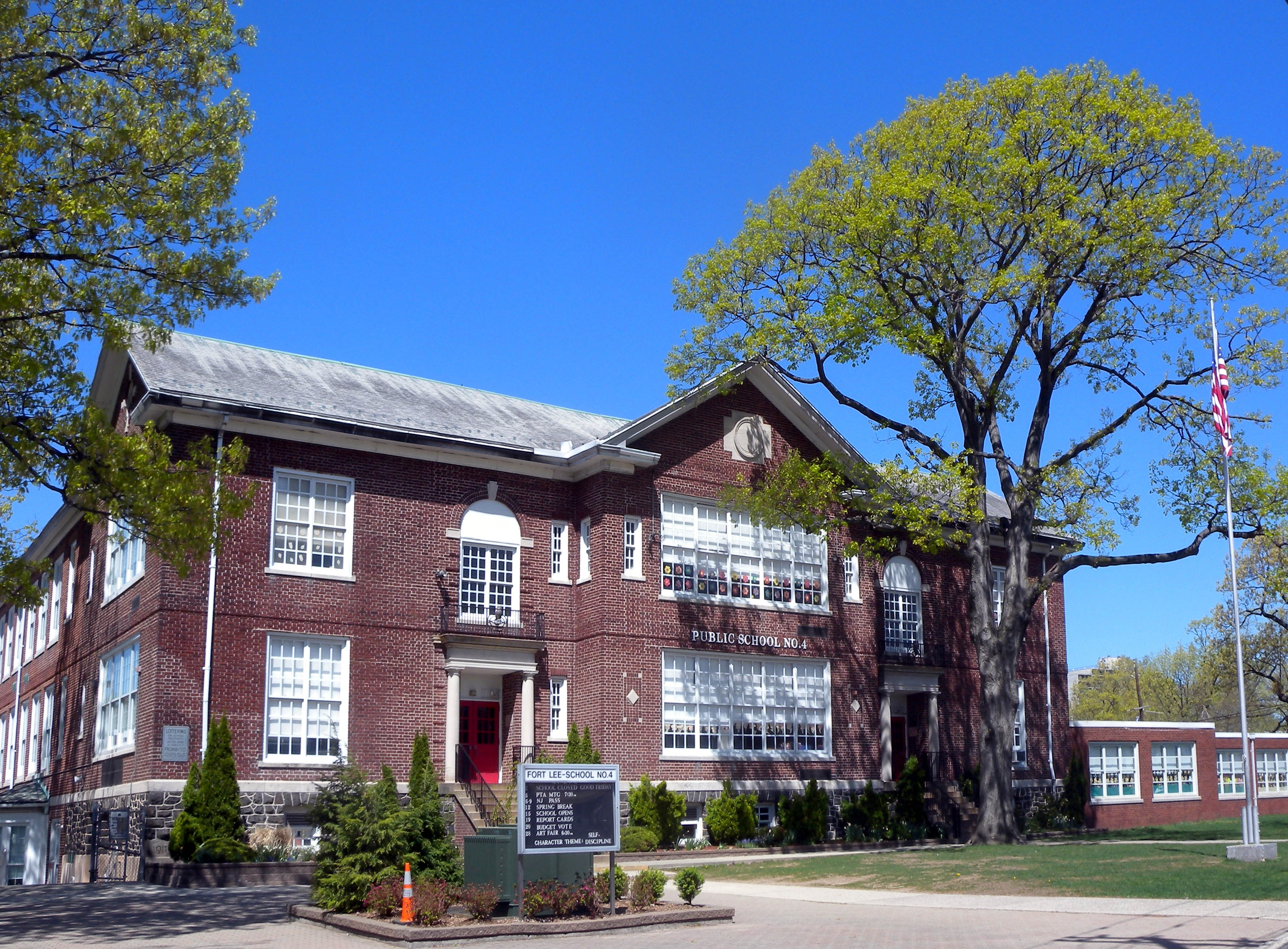 Looking north at Fort Lee School #4 on a sunny midday.